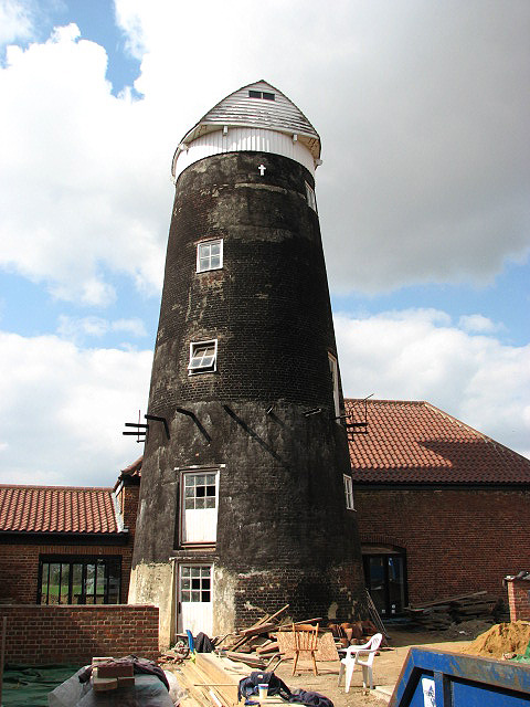 The house converted windmill at Frettenham, Norfolk